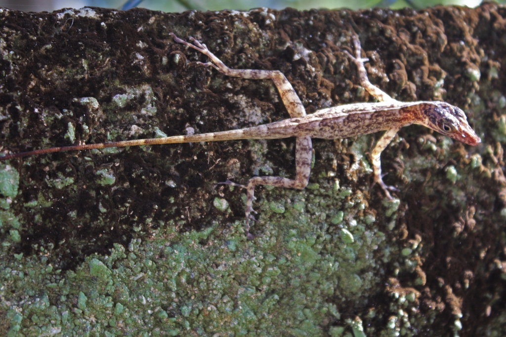 Playa Maguana, Guantanamo Province. I'm not familiar enough with anole species to be 100% on these identifications, but from the few online sources I found, this seemed to be a best fit. Please let me know if you think it might be another species.